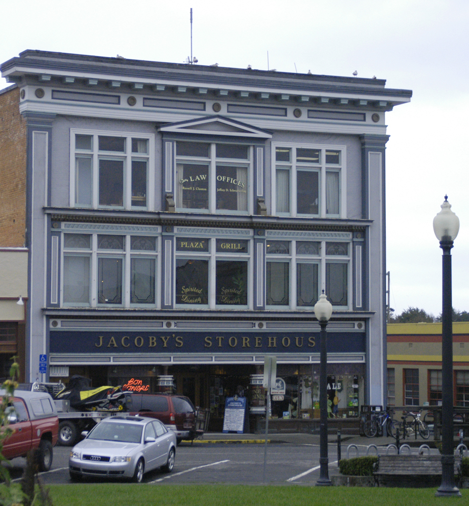 The Jacoby's Storehouse Building, on the Plaza in Arcata, California, is on the National Register of Historic Places.